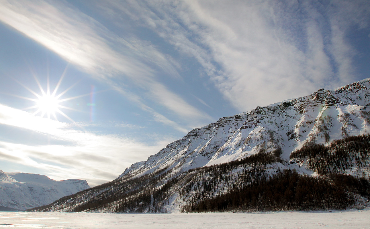 Plato Putorana